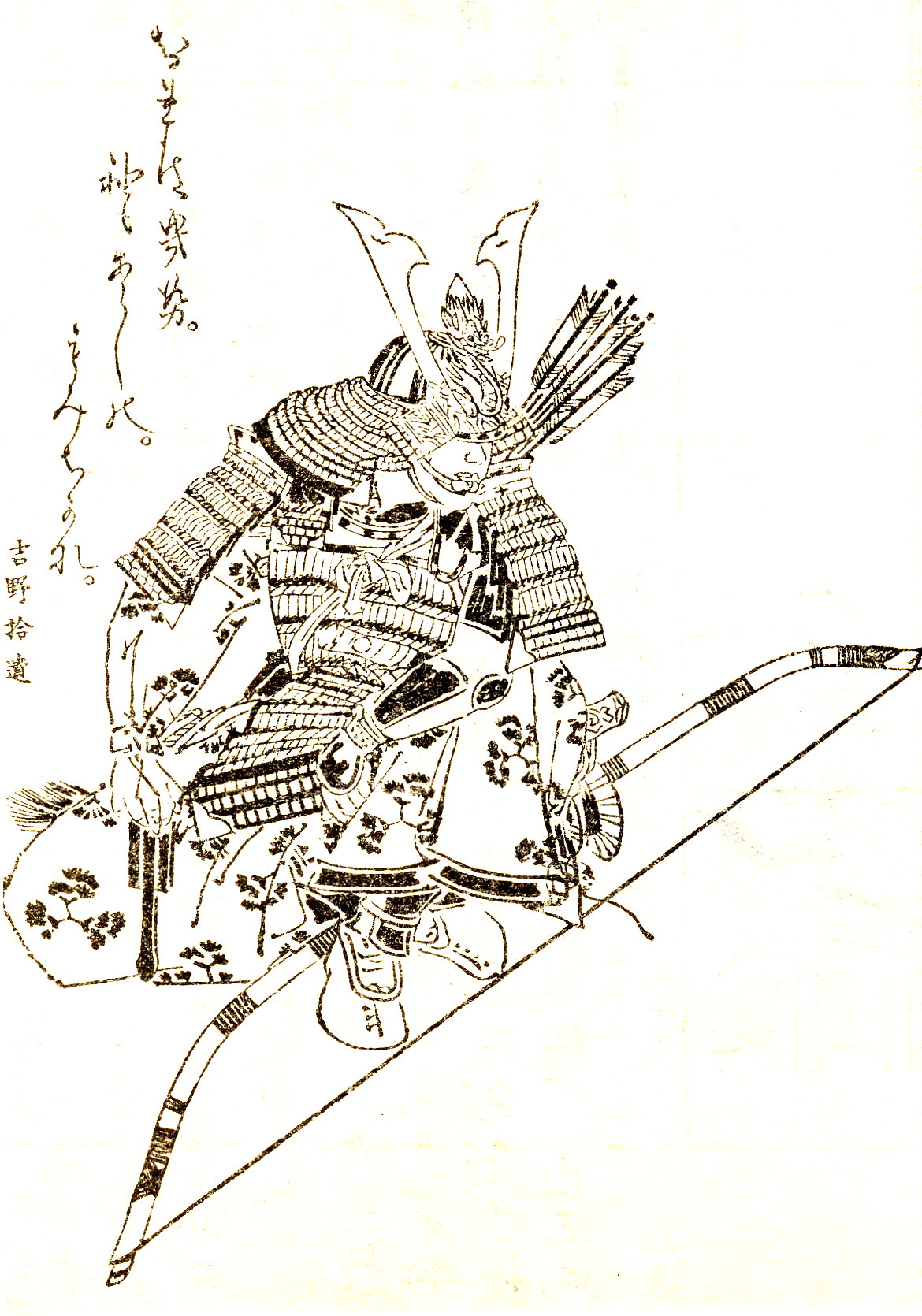 Shijō Takasuke(四条隆資) was a japanese court noble in Nanbokuchō period.